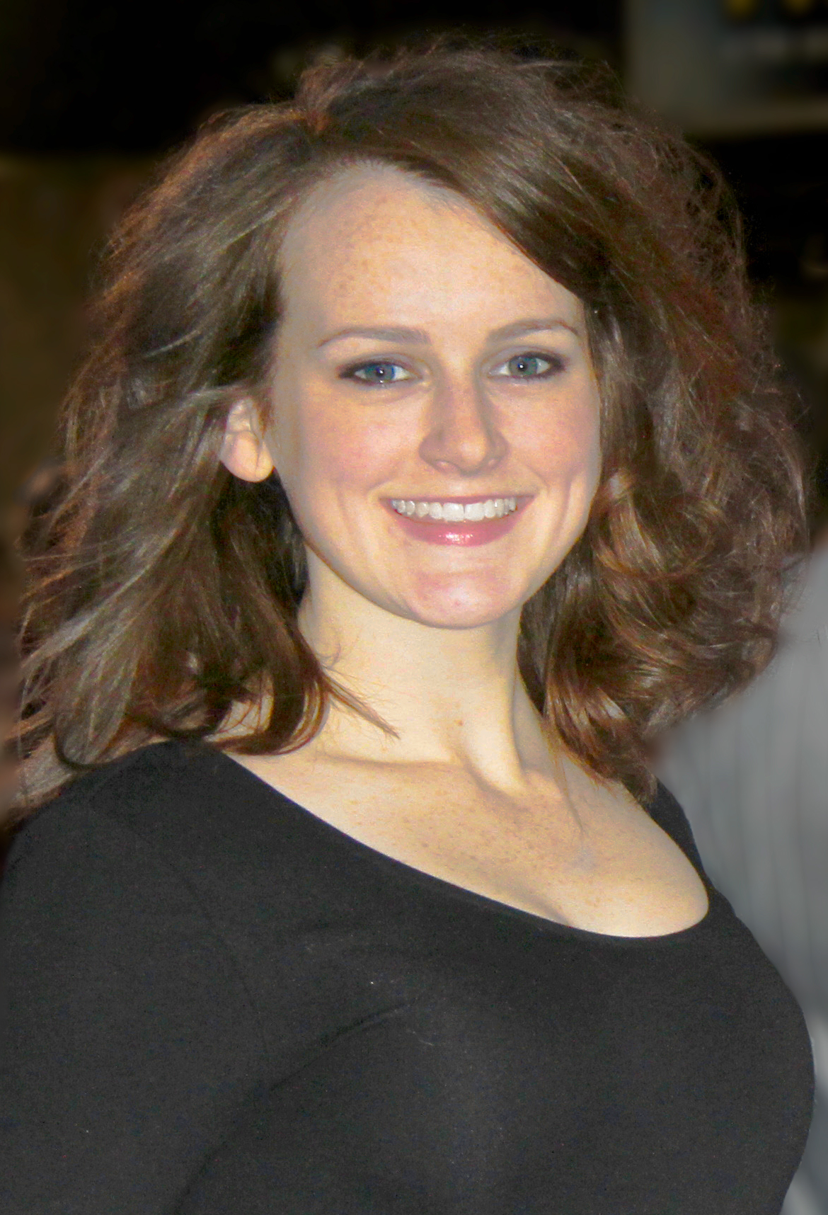 British actress Sophie McShera at the UK film premiere of The Adventures of Tintin: The Secret of the Unicorn, Odeon West End Cinema, London, UK on 23 October 2011.